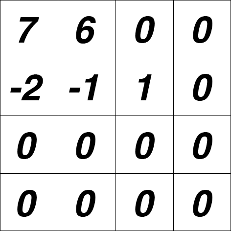 Example of 4x4 transformed luma block